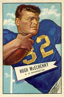 American football player Hugh McElhenny depicted on a 1952 Bowman Gum football card with the Washington Huskies football team